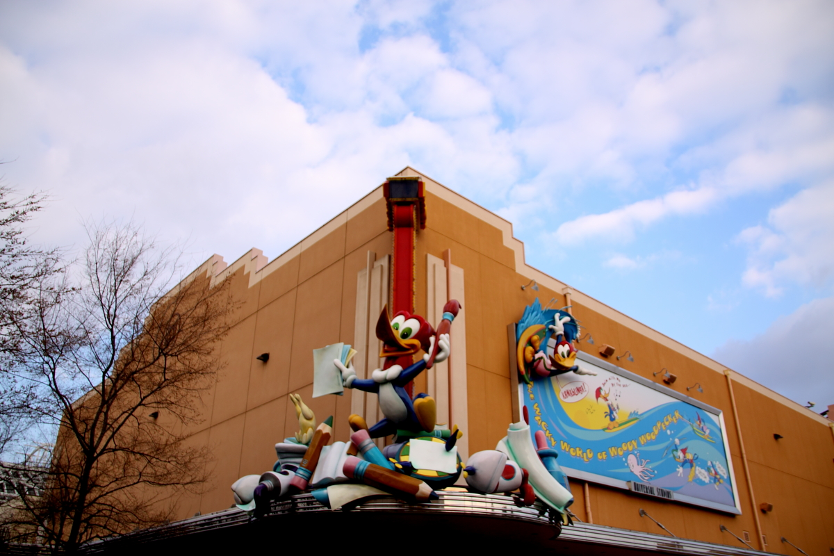 Animation Celebration